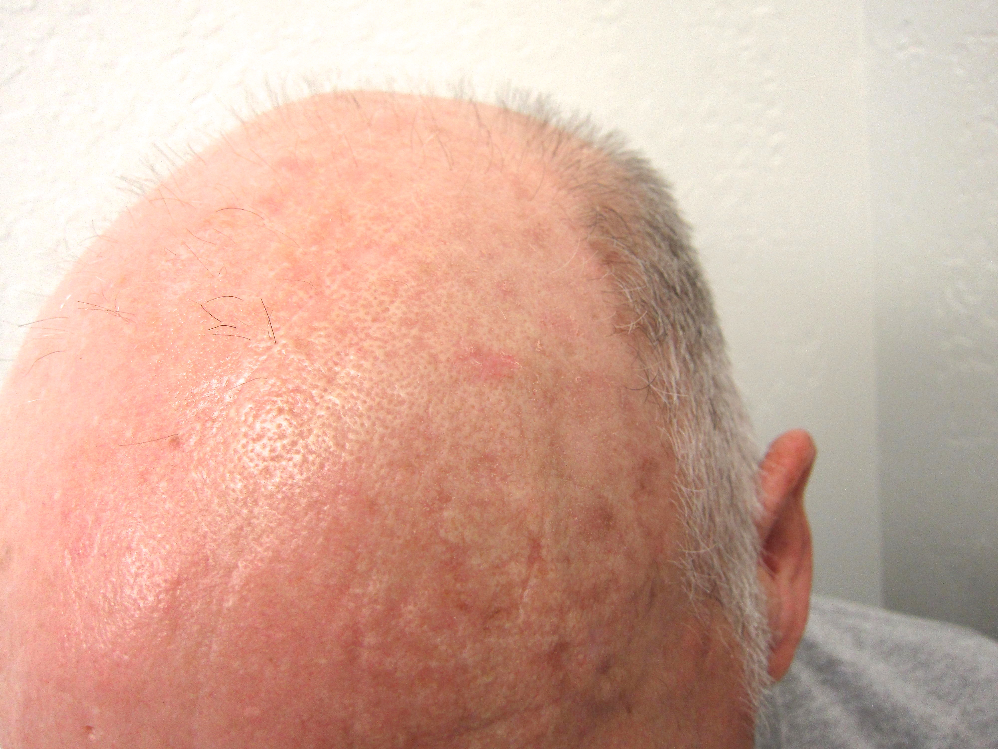 Actinic keratoses are precancerous lesions common on sun-exposed areas of the skin. They can assume many different appearances, but this image shows a very common presentation of AKs on a balding head.